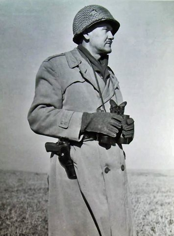 Major General Robert Walker Grow (1895–1985) was an US Army officer who commanded the 6th Armored Division during World War II, and was notable for his court martial in 1951 for failing to safeguard classified information.